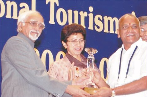 Malladi Krishna Rao receiving Best Civic Management Award for Yanam Region for year 2008-2009 From his excellency M. Hamid Ansari, Vice President of India on 3-3-2010